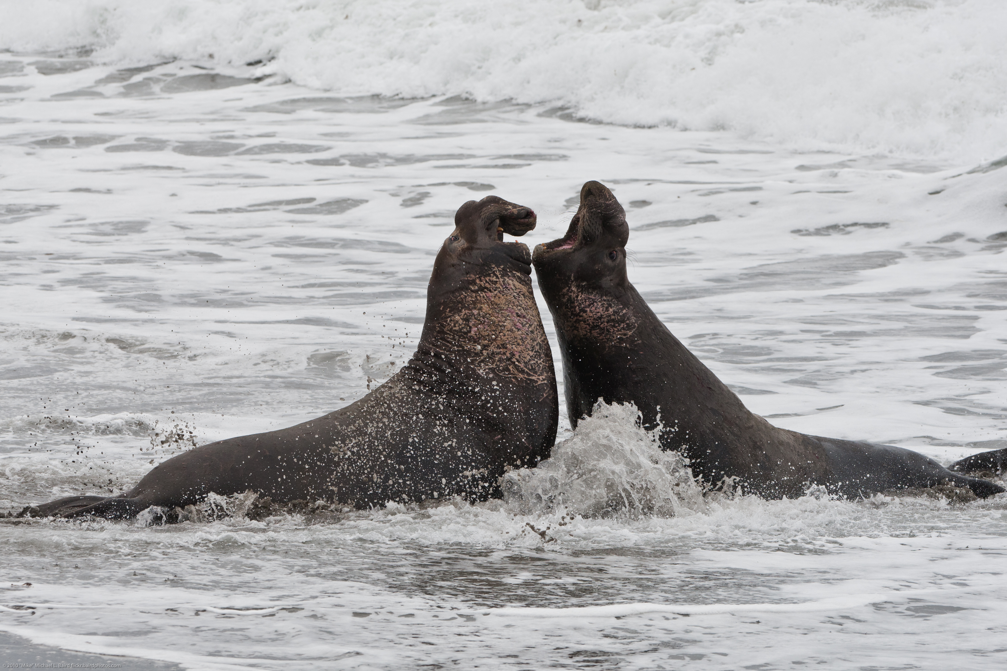 Two Alpha Males in Battle. Northern Elephant Seal M. angustirostris at Piedras Blancas Elephant Seal viewing area, north of San Simeon, CA.